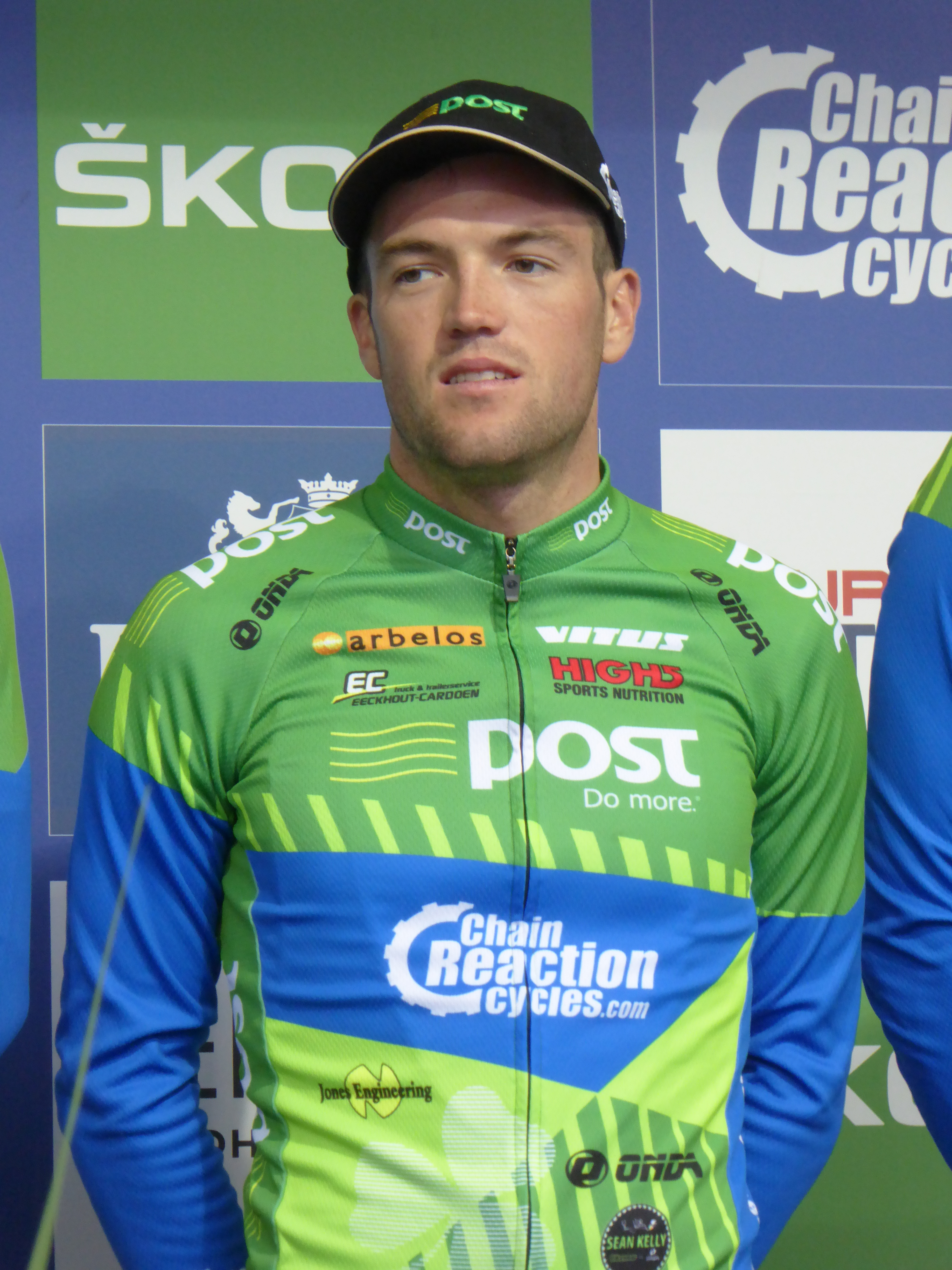 Emiel Wastyn (An Post-Chain Reaction), pictured at the 2016 Tour of Britain team presentation in Glasgow on 3 September 2016.